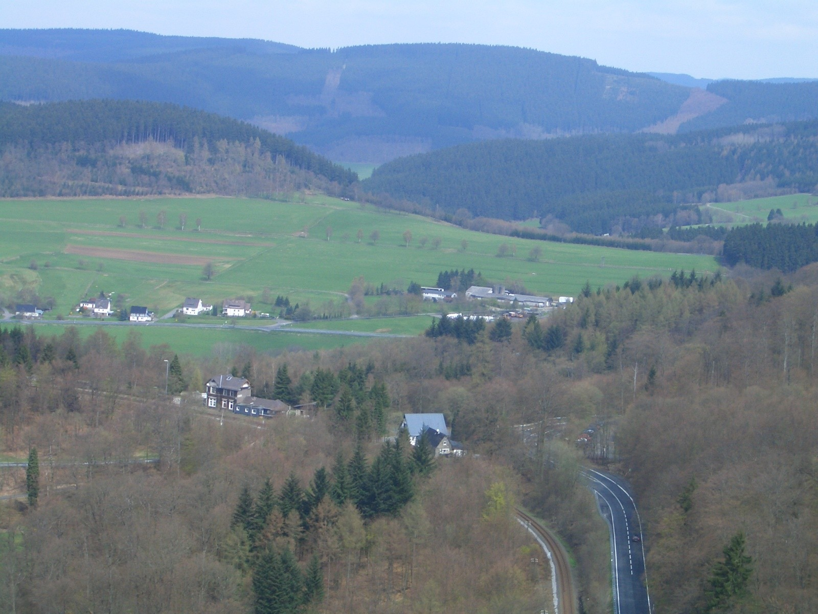 Panorama of Vormwald, Germany.